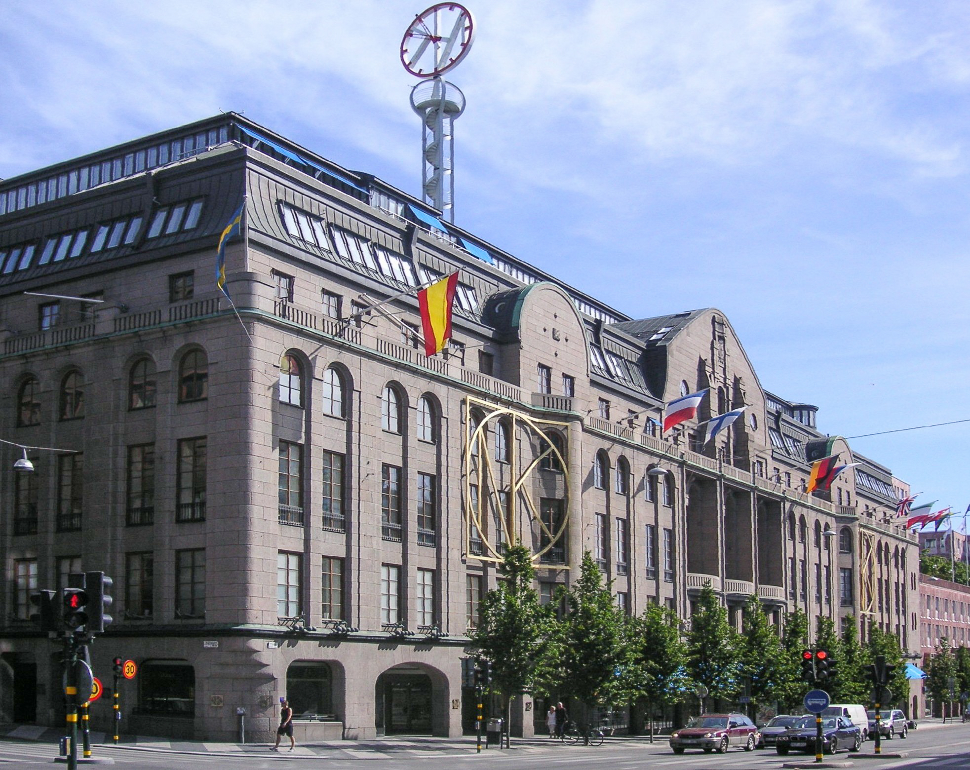 The department store Nordiska Kompaniet (colloquially "NK", and literally meaning "The Nordic Company") in Stockholm, Sweden. The company was established in 1902 and the building constructed in 1915.